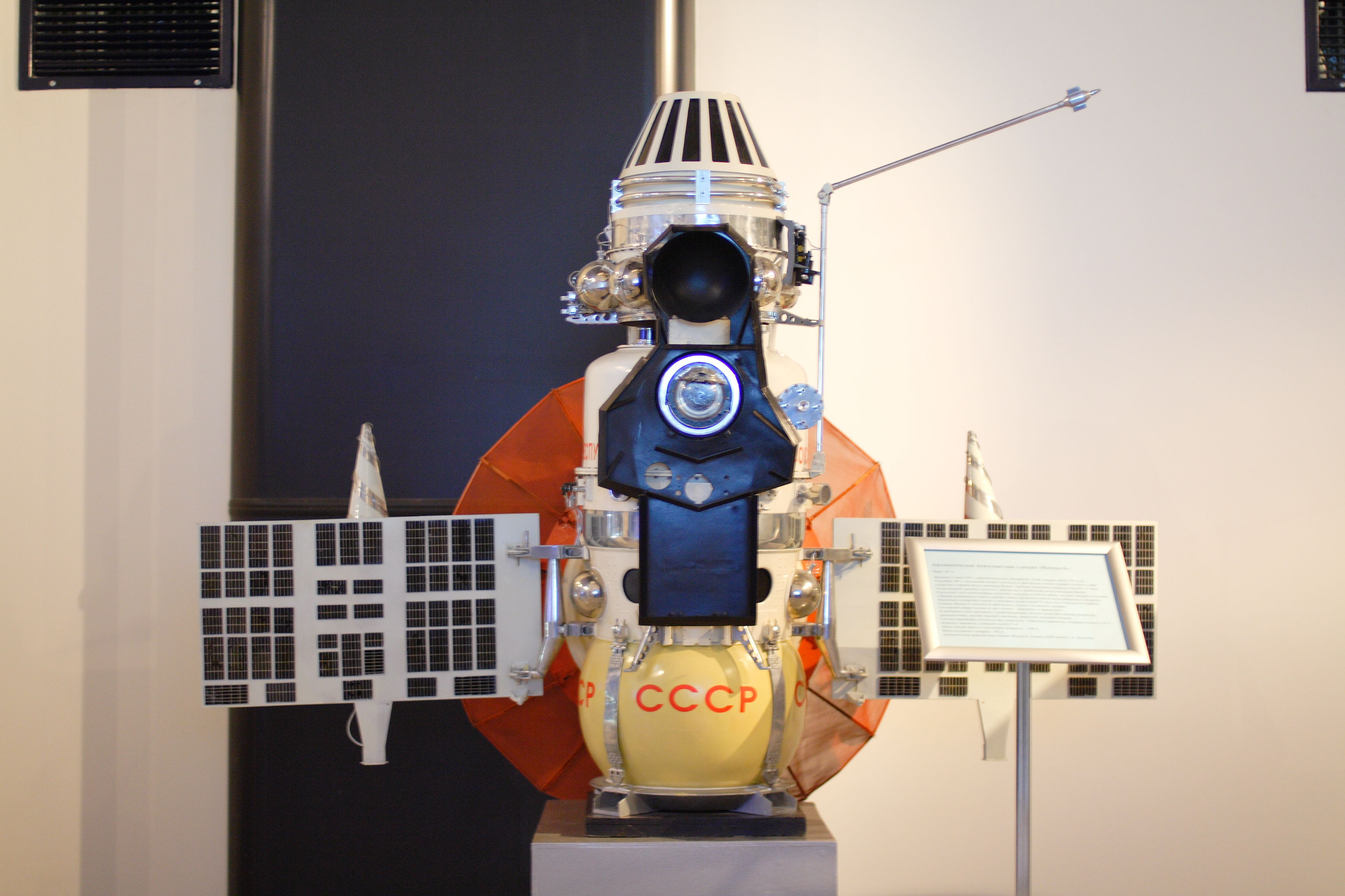 Model of Venera-4 station in Memorial Museum of Astronautics